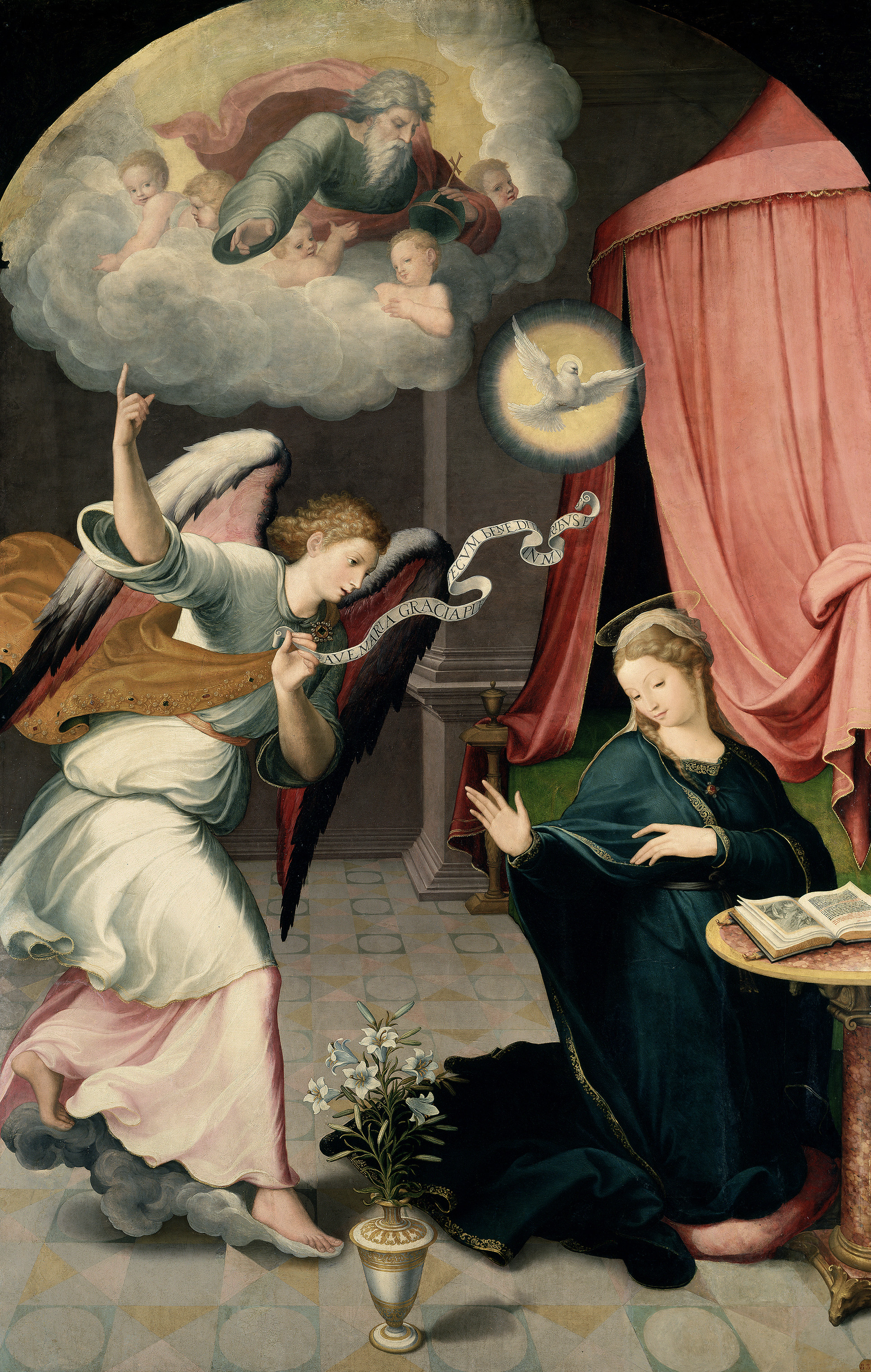 The Annunciation